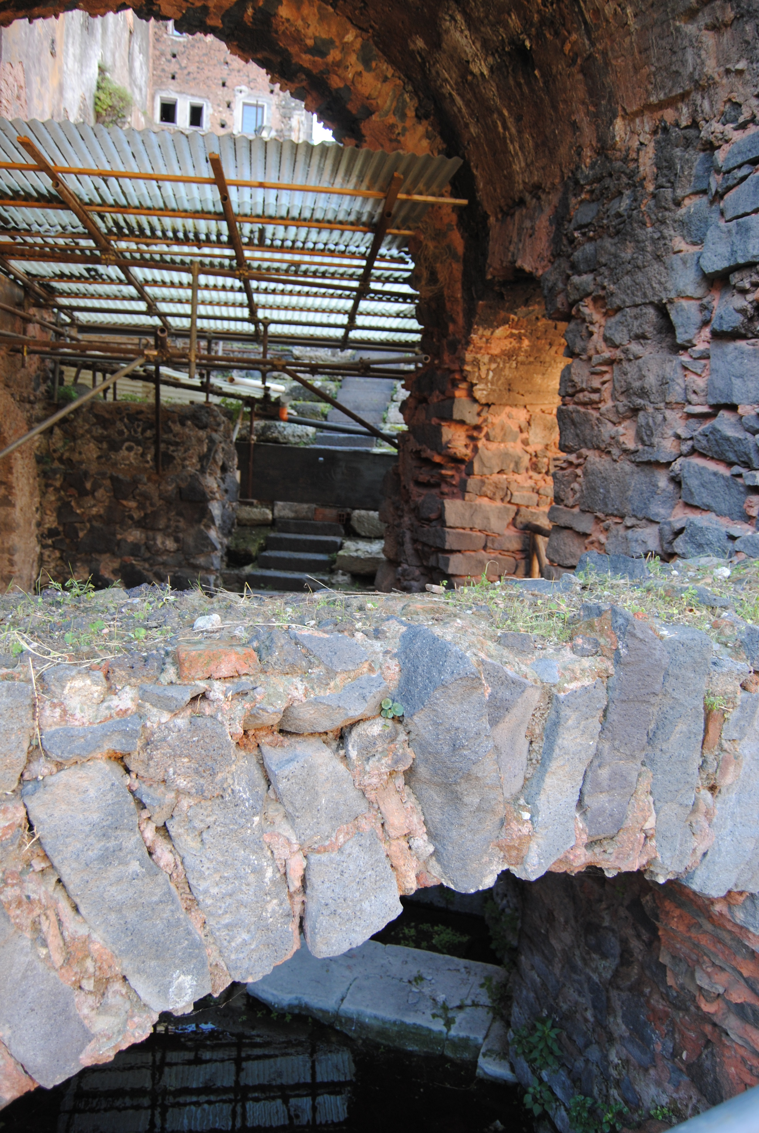 Archi di sostegno di Via Grotte